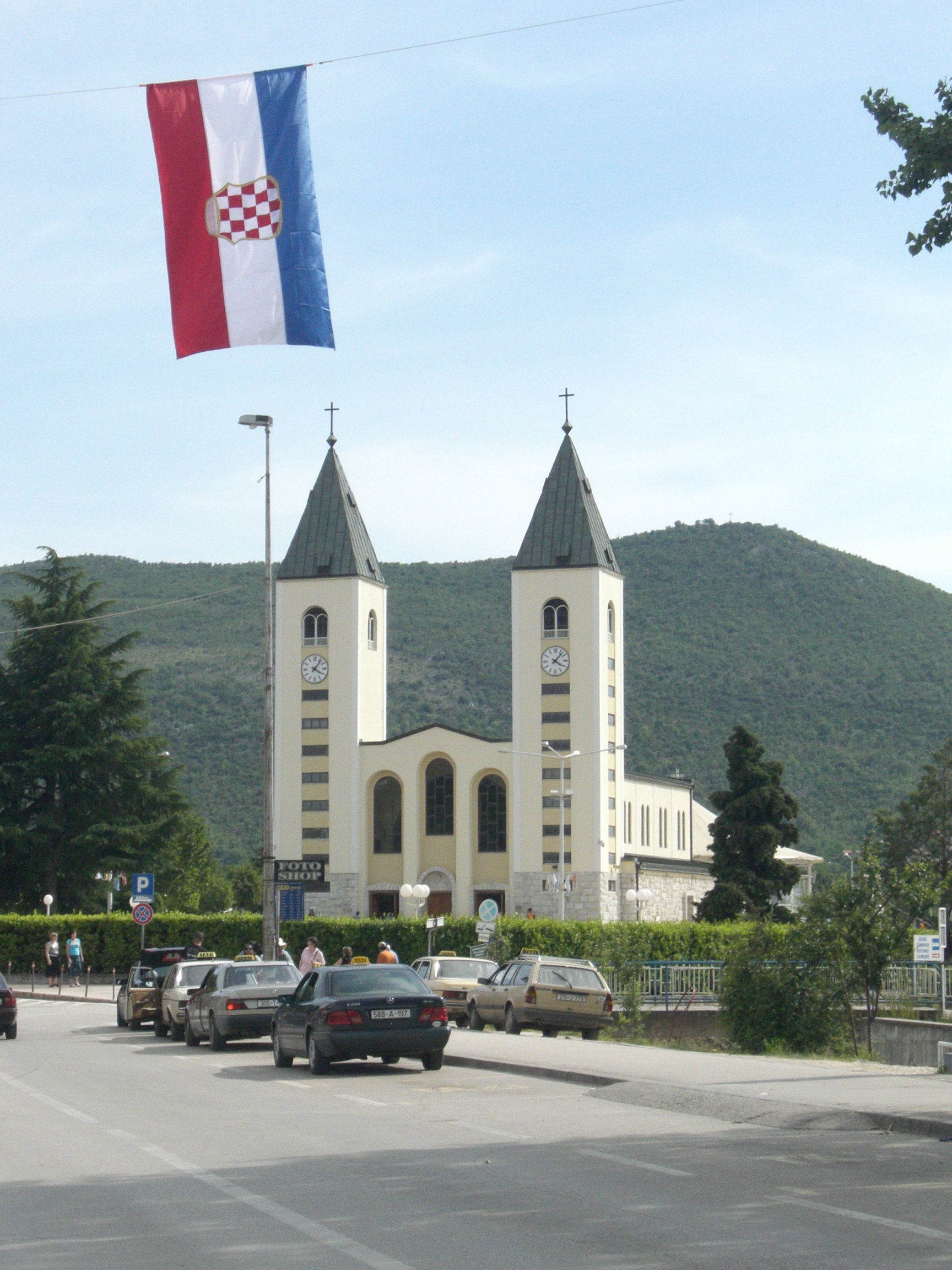 Roman Catholic st. Jacob church in Međugorje